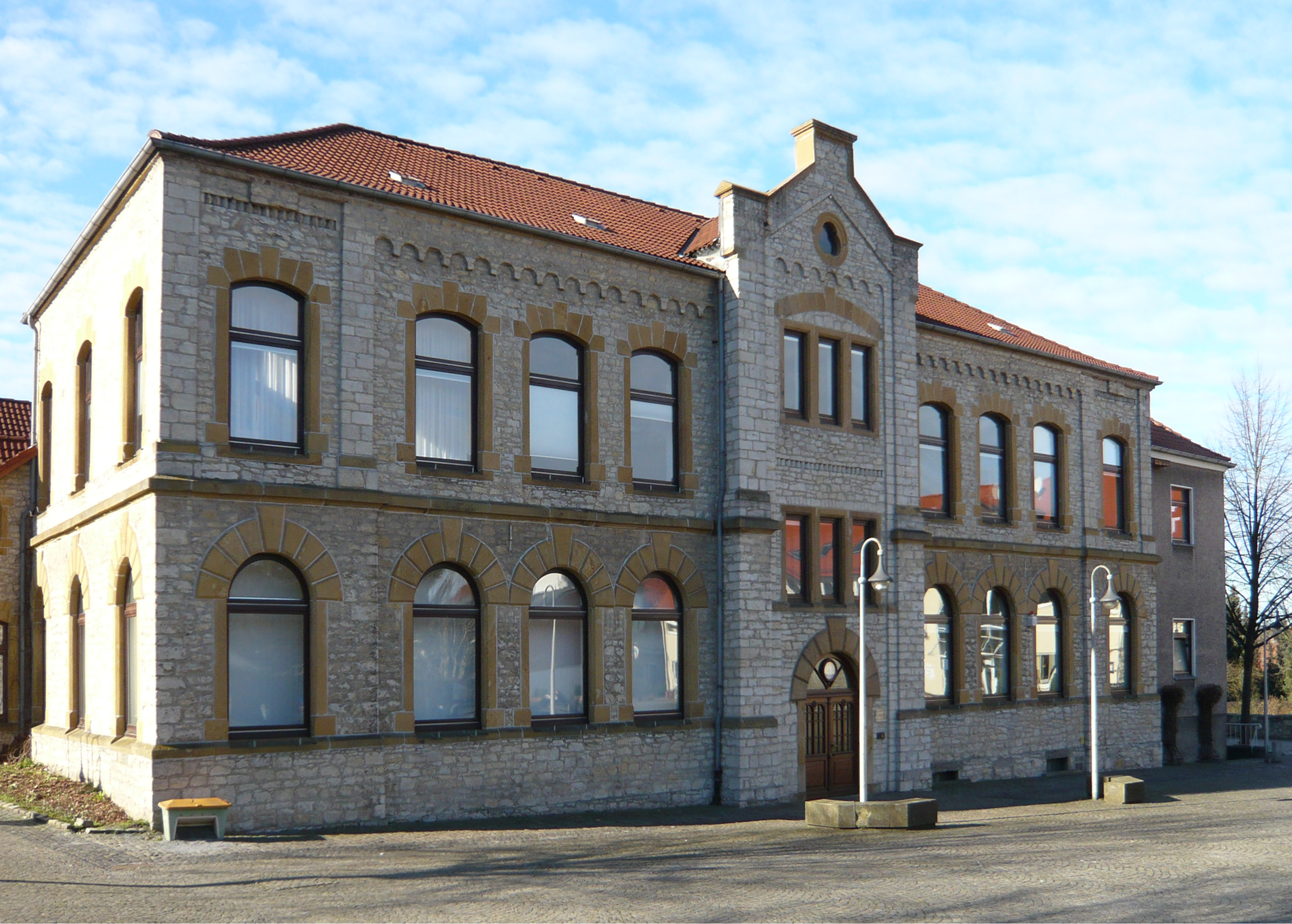 Town hall of Oerlinghausen